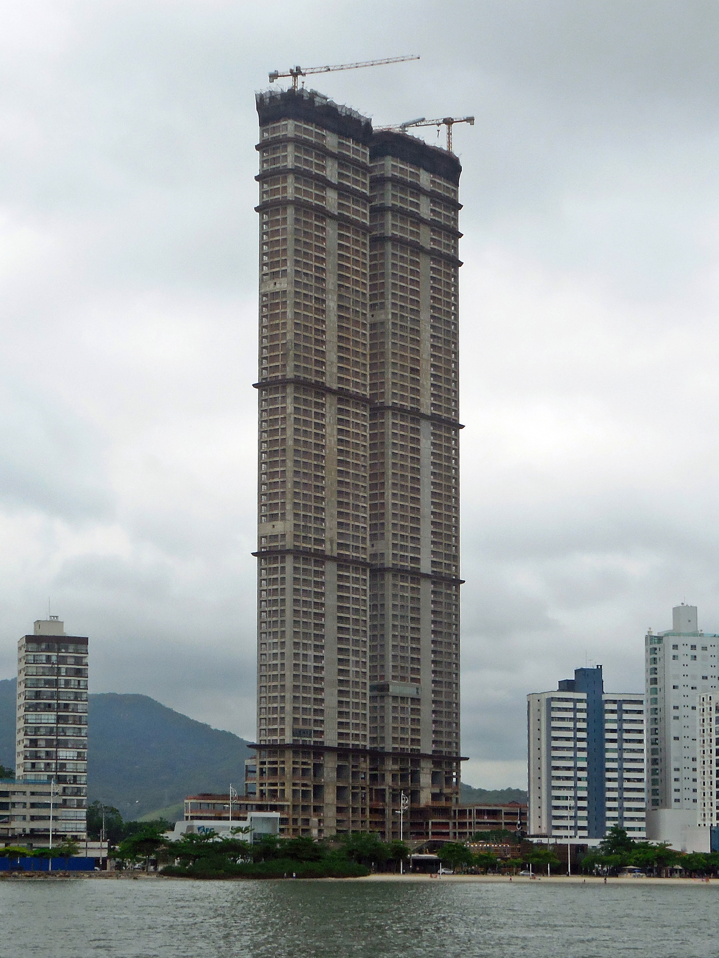 Yachthouse Residence Club in december 2018, in Balneário Camboriú, Santa Catarina, Brazil.